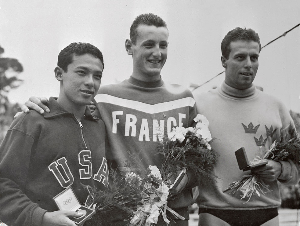 LF57 1952 Wire Photo JEAN BOITEUX FORD KONNO PER OLAF OSTRAND Olympic Medals